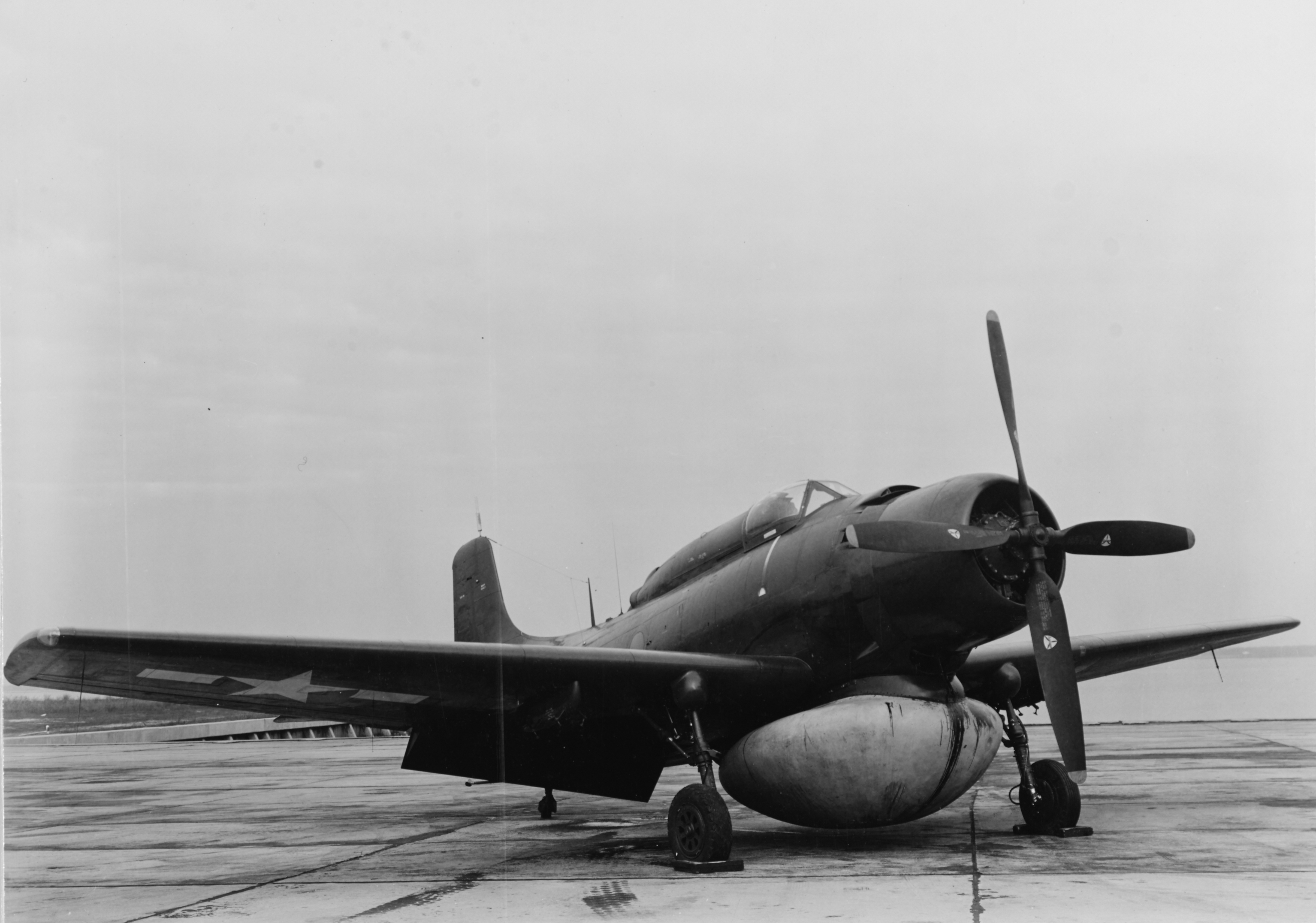 A U.S. Navy Douglas AD-1W Skyraider (BuNo 09107) prototype radar early warning model, at the Naval Air Test Center Patuxent River, Maryland (USA), 7 January 1948.